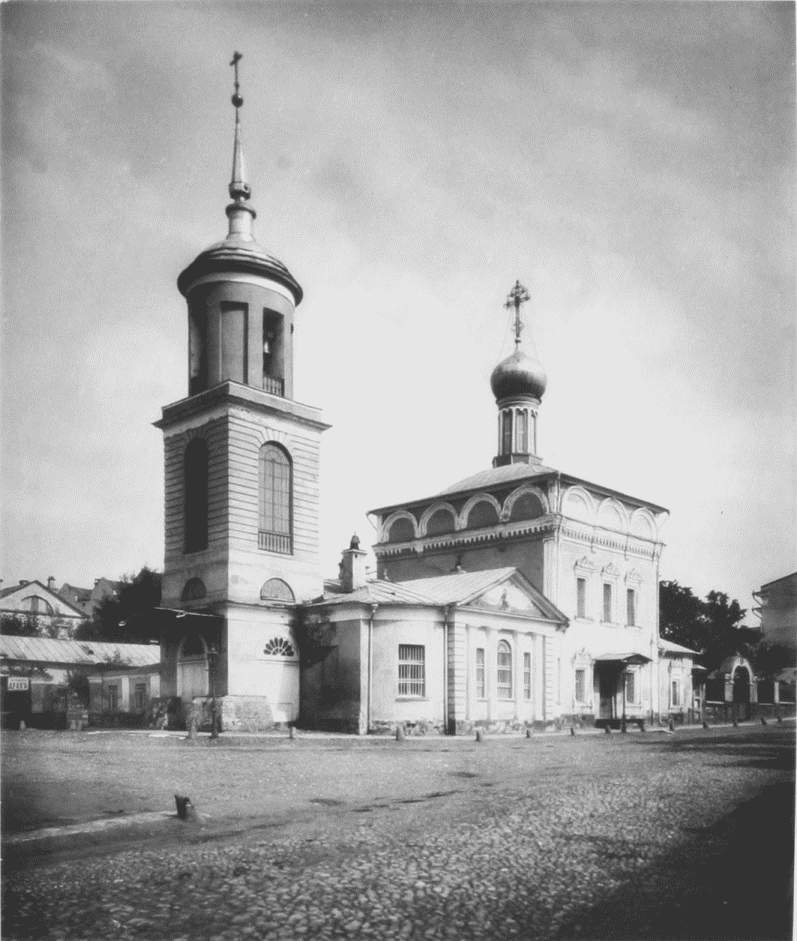 Church of the Renewal of the Temple of the Resurrection of Christ at Jerusalem in Uspensky Vrazhek (literally on a crest)